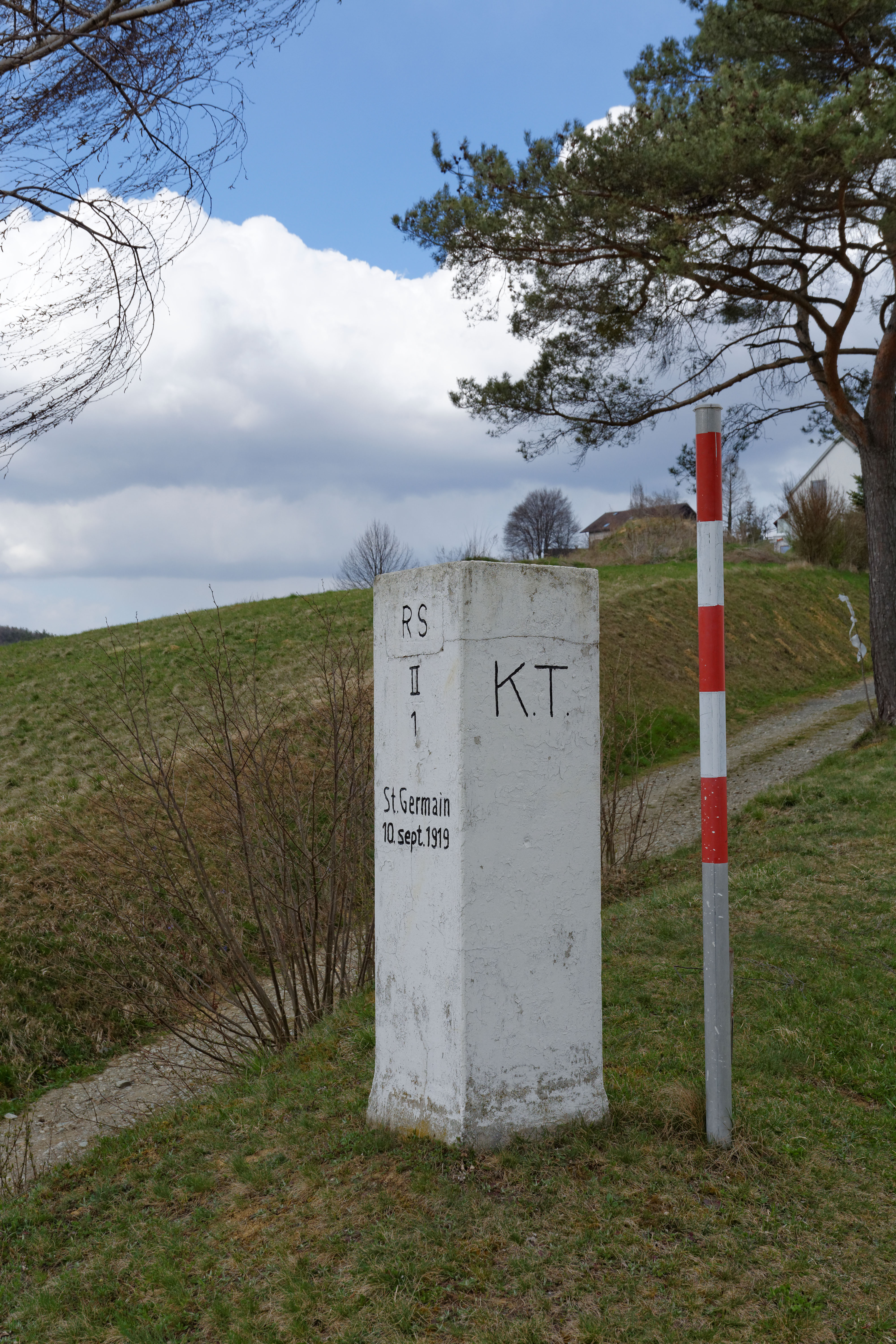 Tripoint boundary stone nearKalch, Municipality Neuhaus am Klausenbach, Burgenland andWaltra, Municipality St. Anna am Aigen, Styria (both Austria) andOcinje, Municipality Rogašovci, Slovenia